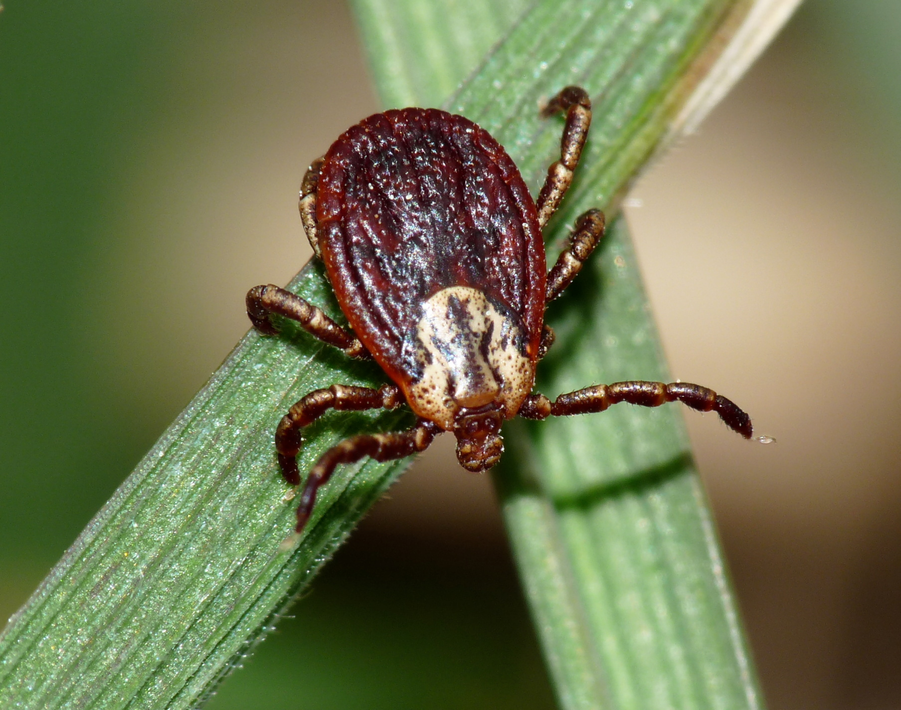 Tick Dermacentor marginatus - female, near Livorno, Tuscany, Italy